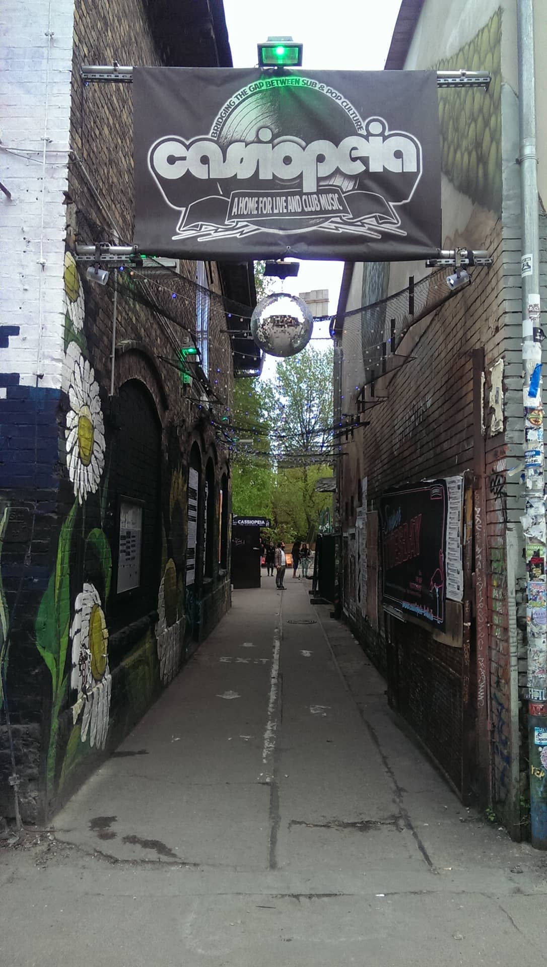 cassiopeia consert hall at RAW area, Berlin